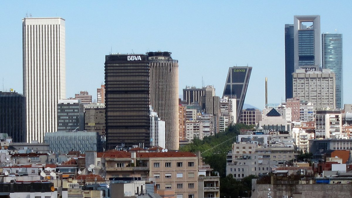 AZCA business district in Madrid on the left, with one of the Puerta de Europa towers in the centre and with the CTBA skyscrapers at the back-right of the picture.